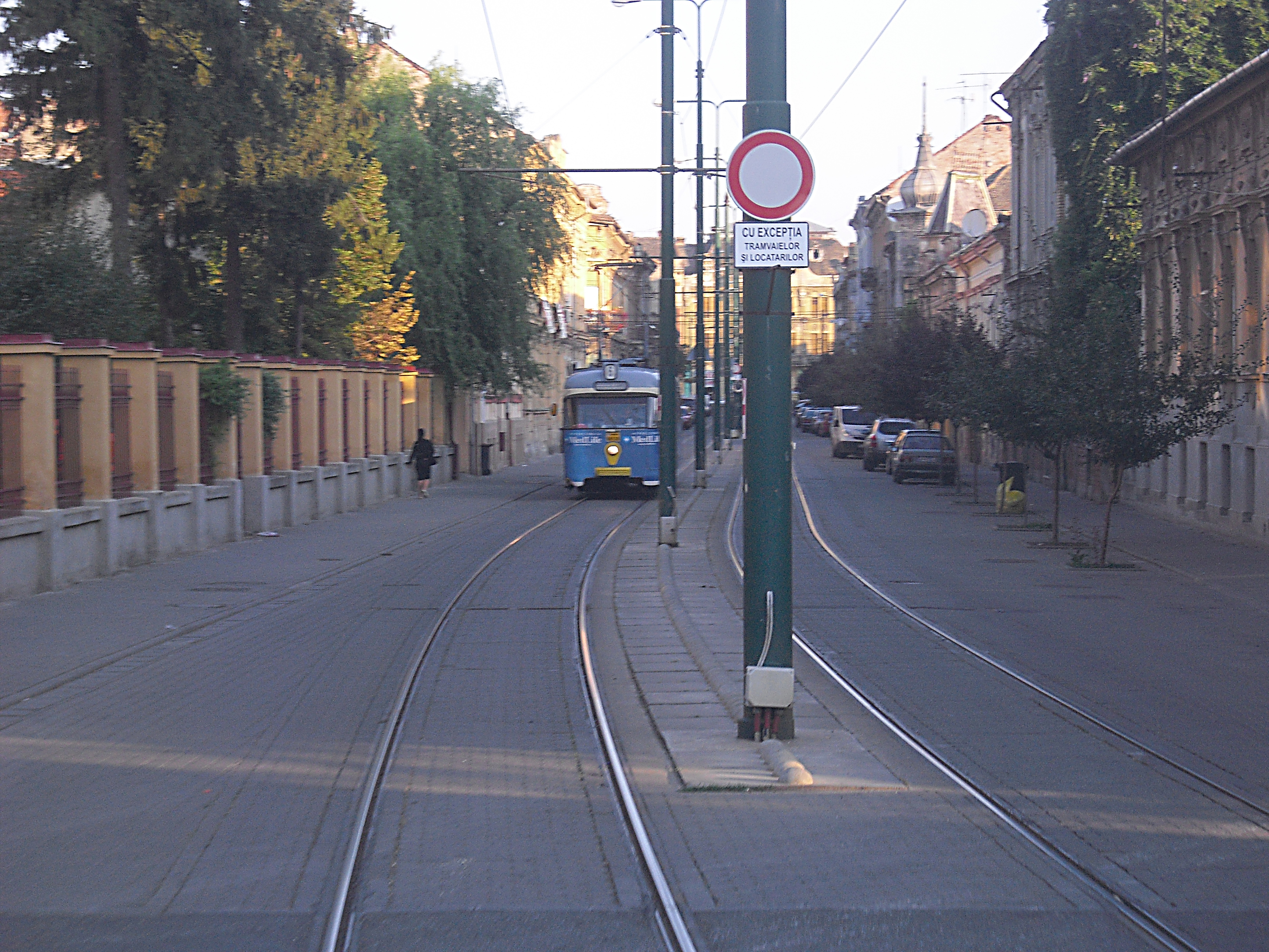 GT4 type tram in Timisoara.